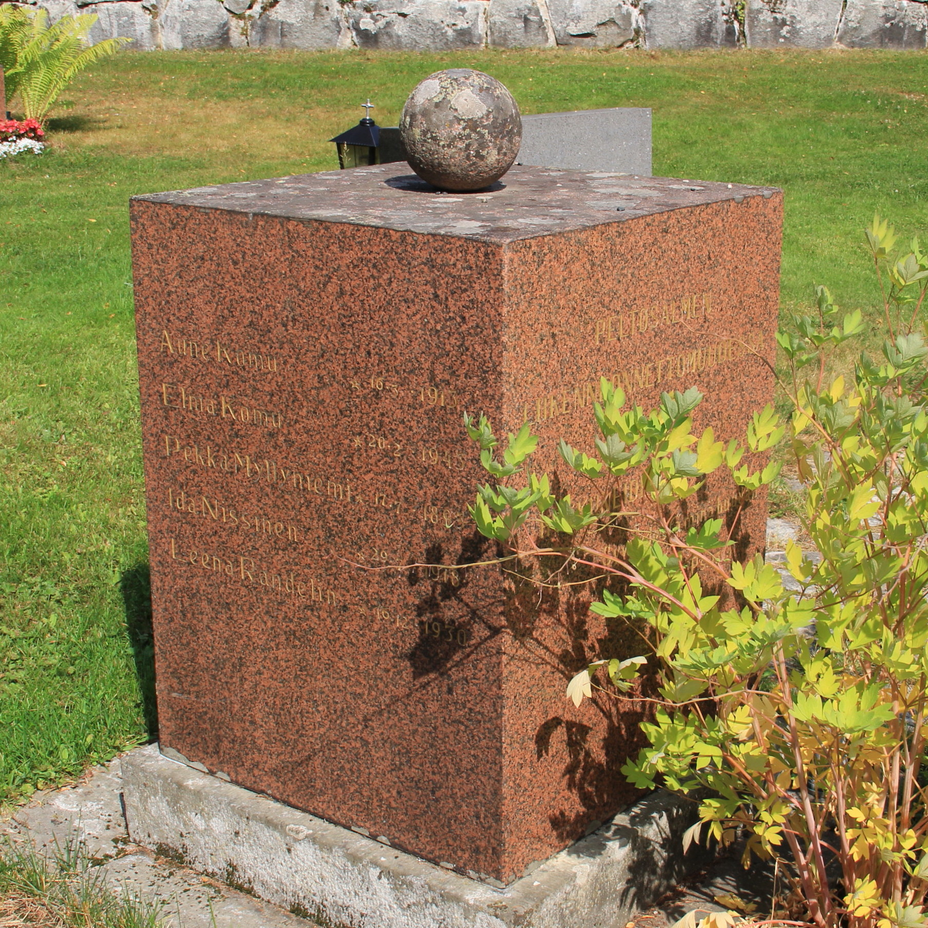 Peltosalmi bus accident victims gravestone, Old cemetery, Iisalmi, Finland